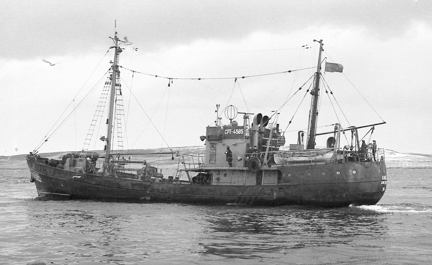 R-4585 SRT-4585 Autse underway, Lerwick 28 January 1968